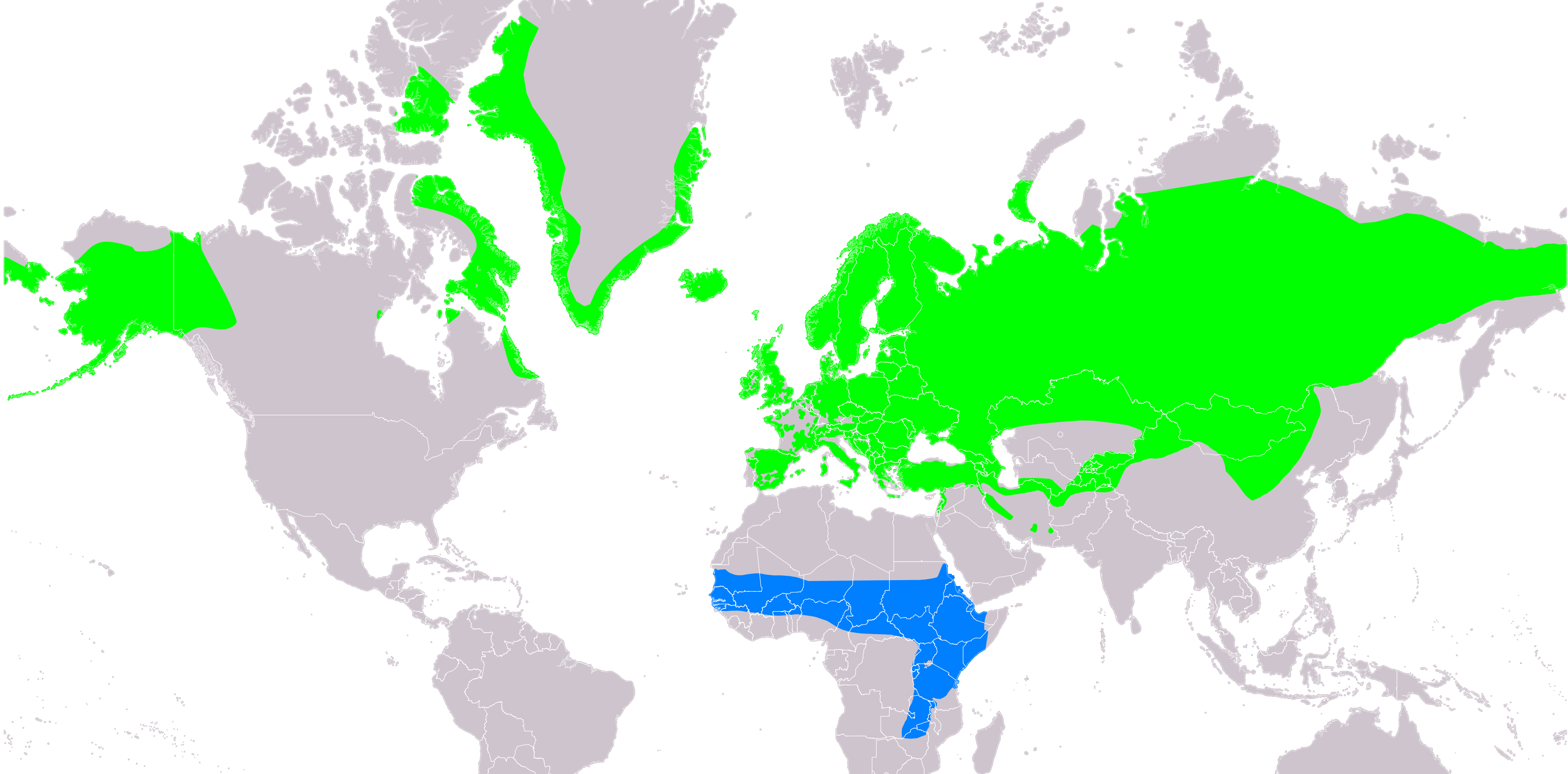 Distribution map od Northern Wheatear (Oenanthe oenanthe) according to IUCN version 2019.3; key: Legend: Extant, breeding (#00FF00), Extant, non-breeding (#007FFF)